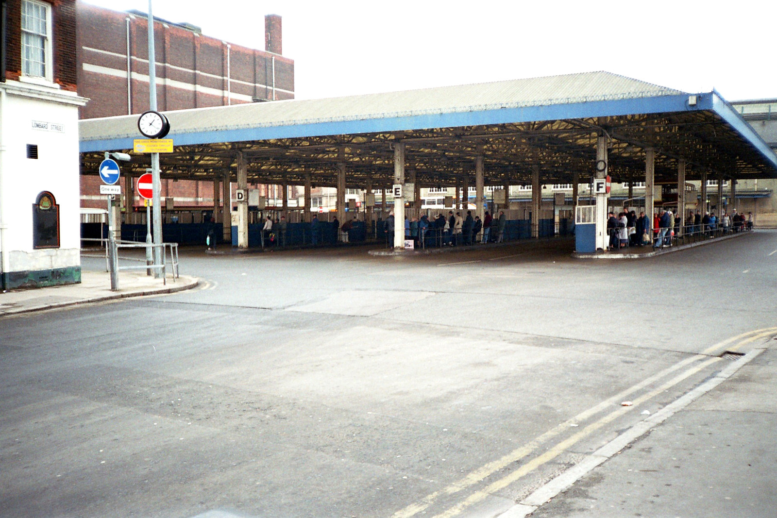 Hull Bus Station 2004 prior to being demolished